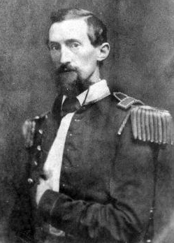 Photo of Francis Asbury Shoup (March 22, 1834 – September 4, 1896), Confederate Brigadier General. Note: Francis Asbury Shoup attended the United States Military Academy, graduating in 1855 fifteenth out of a class of thirty-four. He served in the United States Army as a member of the First United States Artillery and fought against the Seminoles in Florida. He decided to retire on January 10, 1860. He joined the CSA after the American Civil War broke out.